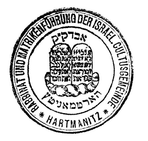 Stamp of Jewish Community of Hartmanice